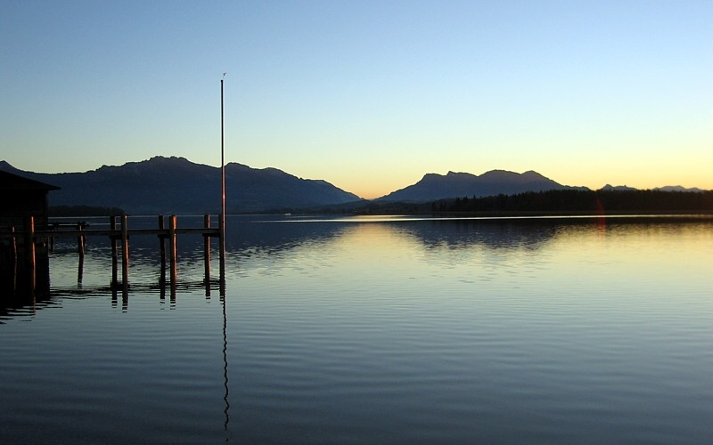 Chiemsee - Bavaria - Germany